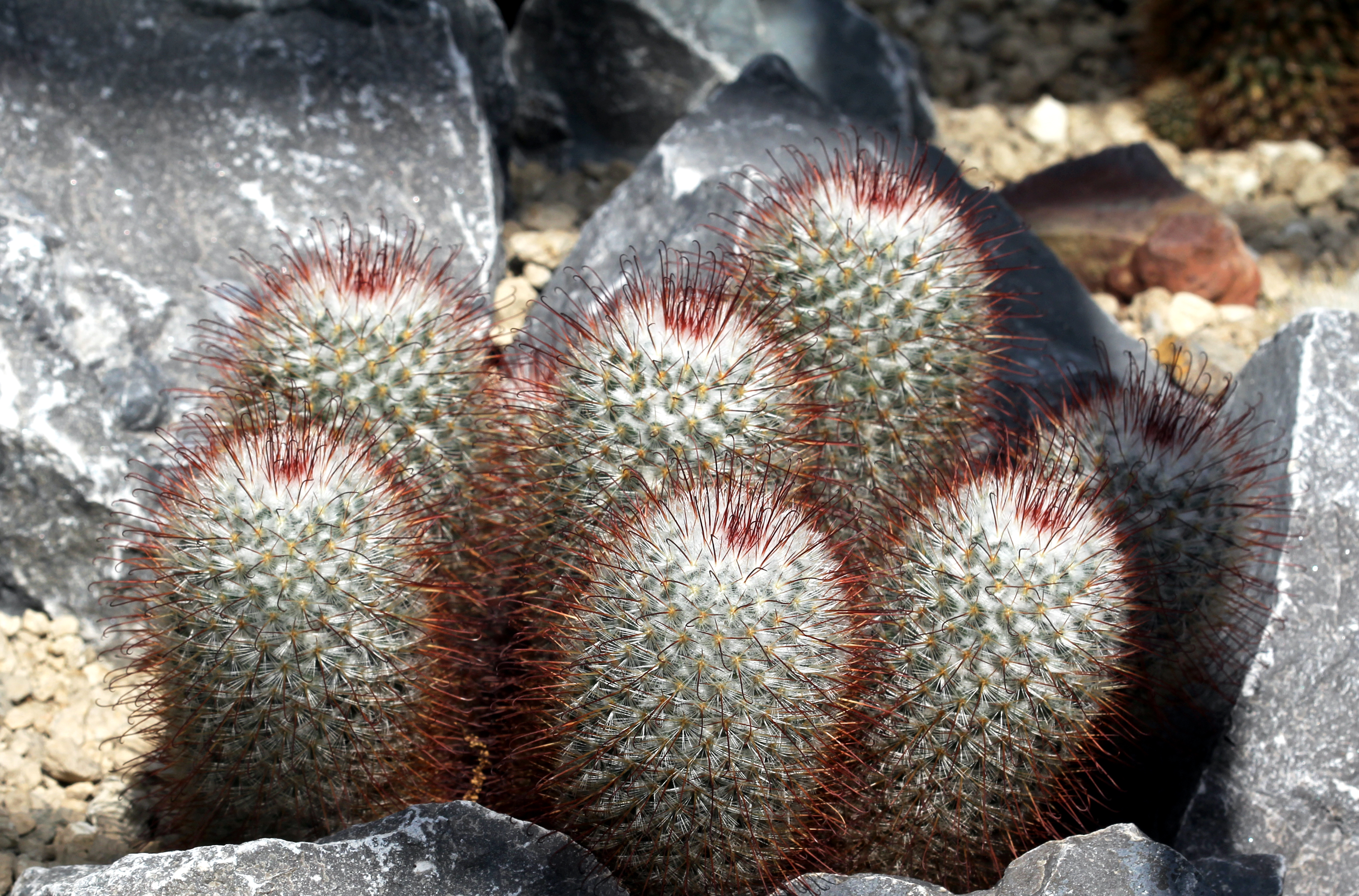 Cactus Mammillaria bombycina, (Mammillaria bombycina), the Botanical Gardens of Charles University, Prague, Czech Republic